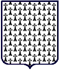 Coat of arms of the Duchy of Brittany